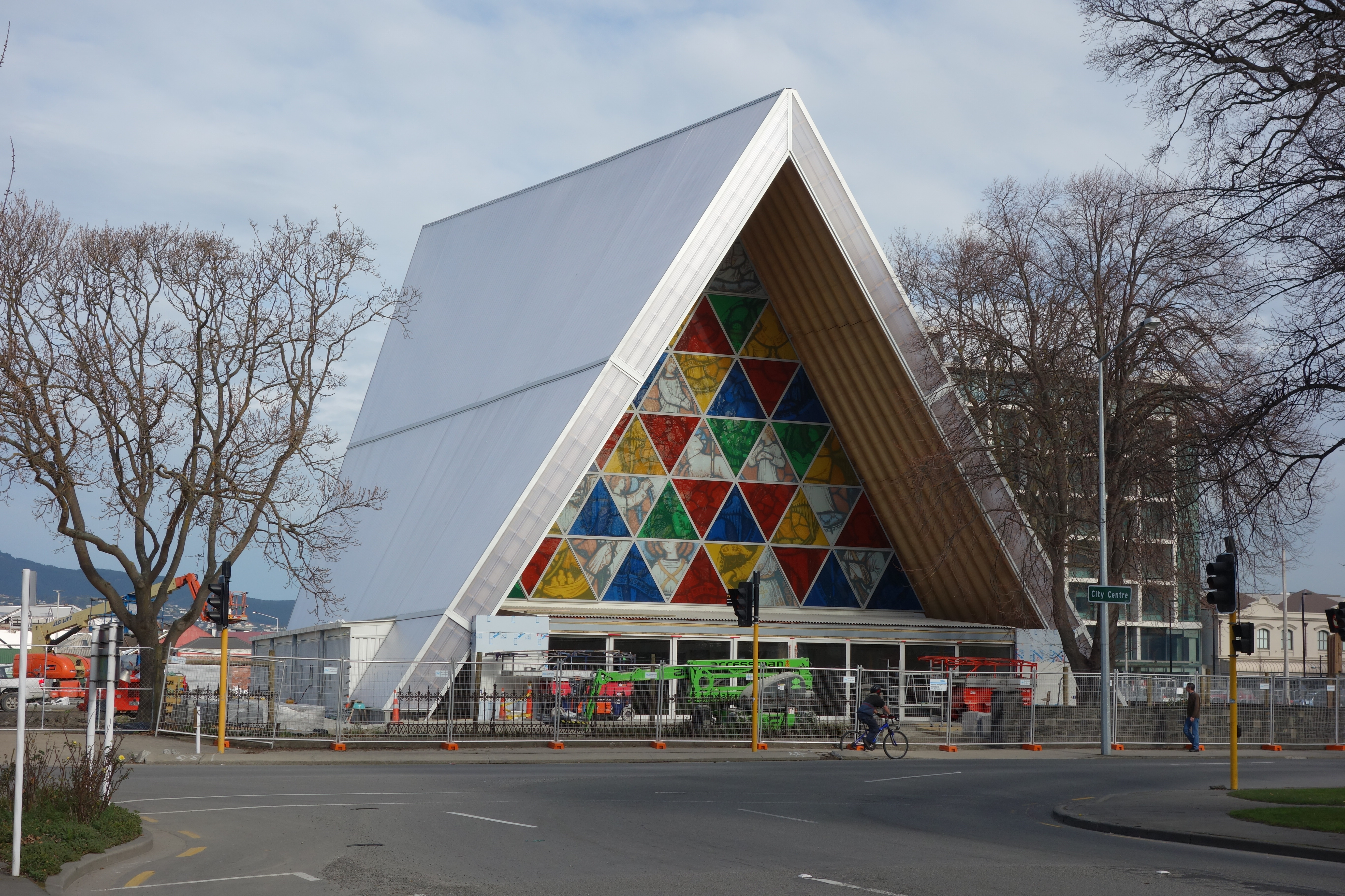 Cardboard Cathedral in July 2013.